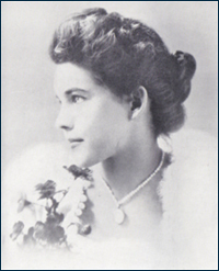 Emma Shepherd Robinson, sister in law of Edwin Arlington Robinson